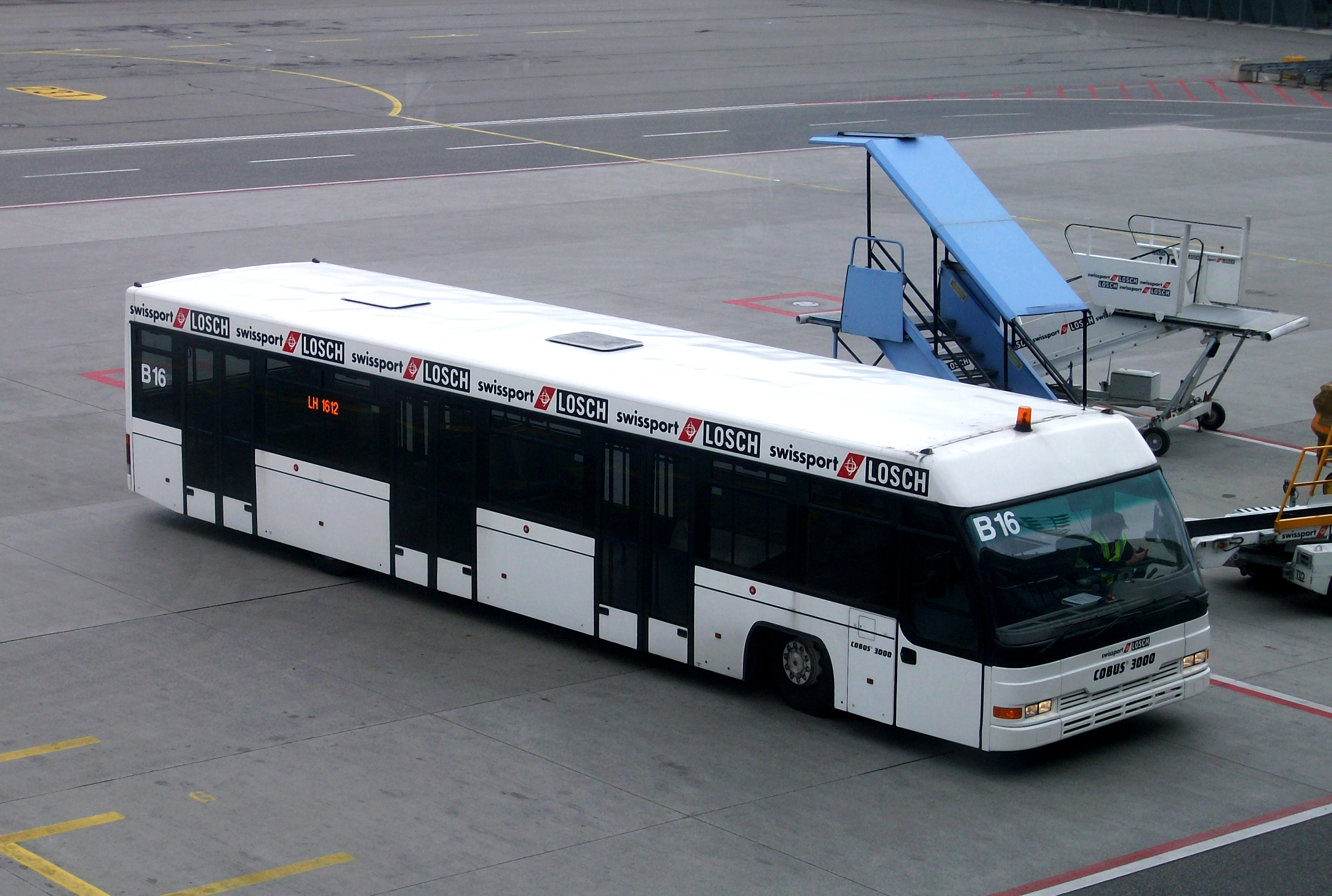 Contrac Cobus 3000 Mk3 airport bus (#B16) at Munich airport, Germany.